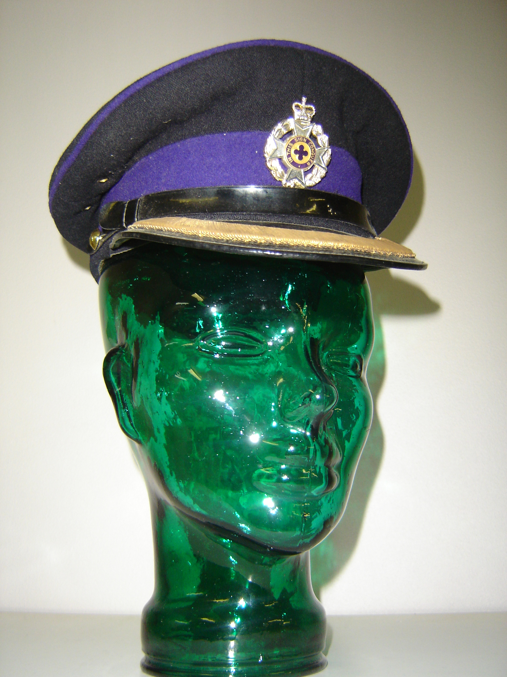 A Royal Army Chaplains' Department cap from post-1953 (Queen's Crown) onwards